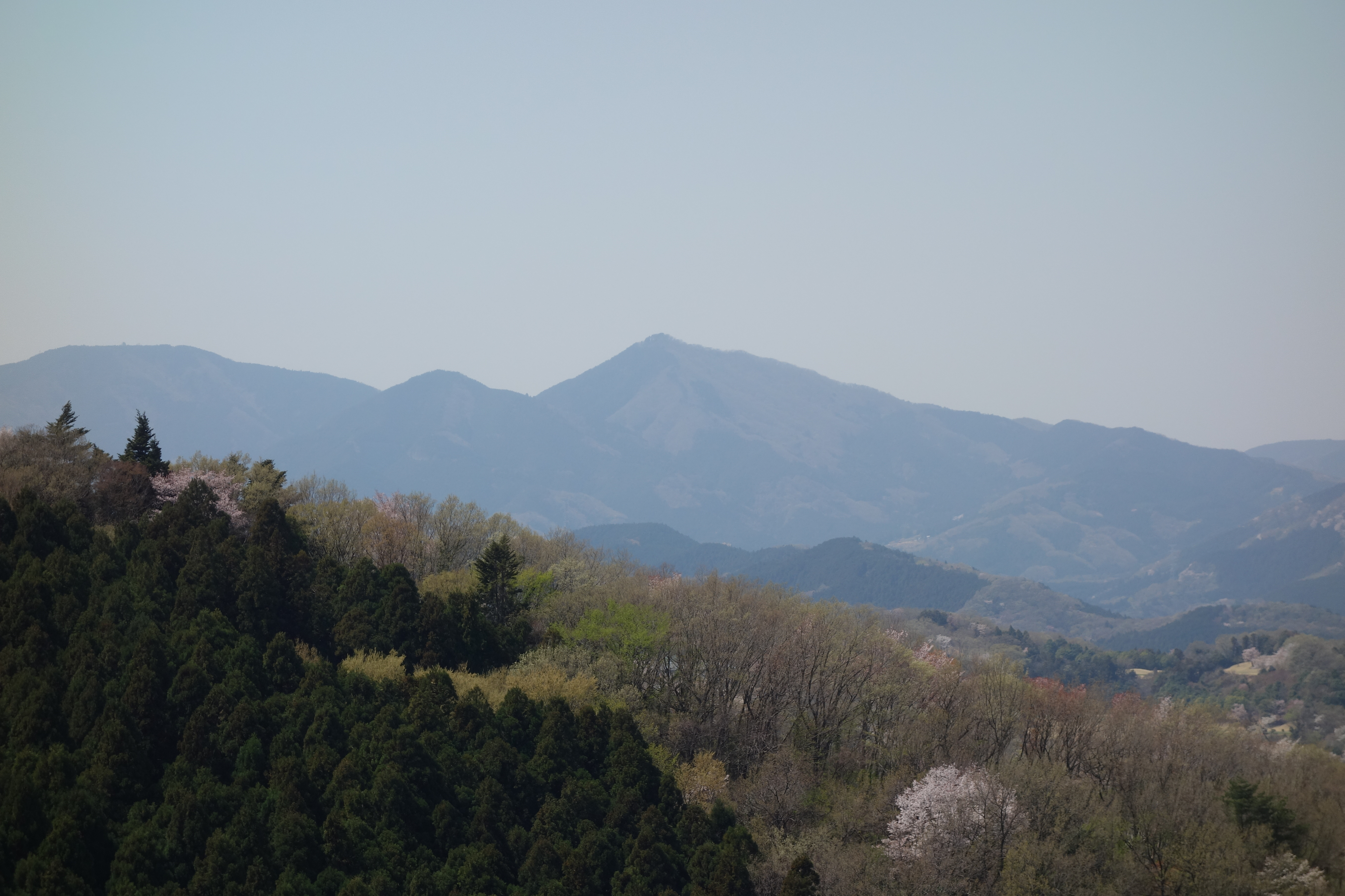 Mount Kasa seen from the ENE. Taken from Mount Sengen.